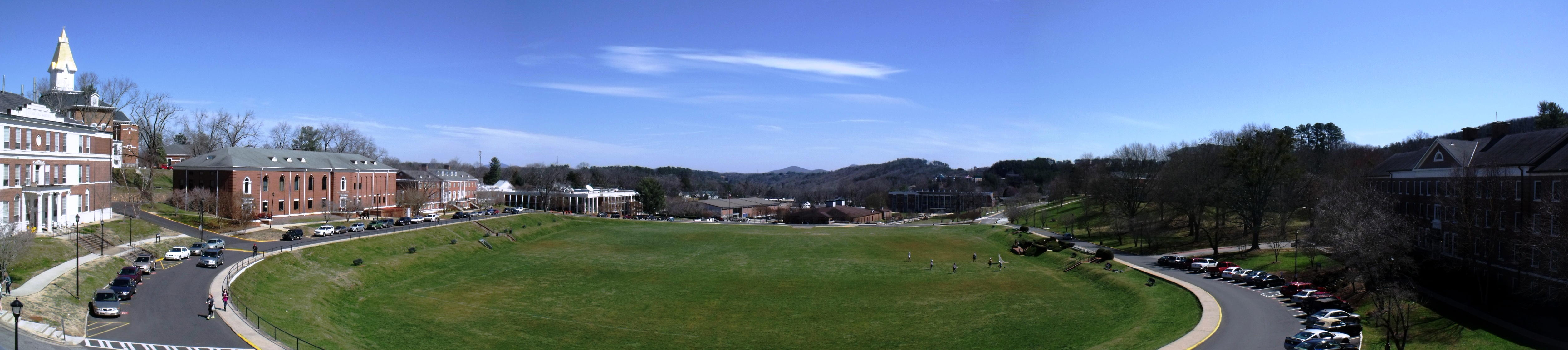 Panoramic view of the University of North Georgia's Dahlonega campus featuring Price Memorial Hall and the "Drill Field"